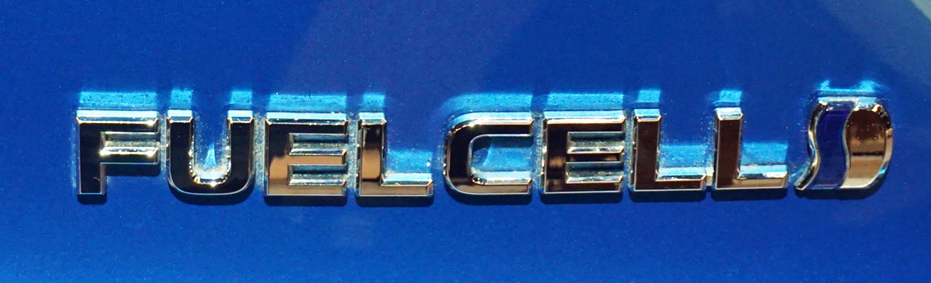 Toyota Mirai Fuel Cell badge. Salão Internacional do Automóvel 2016 São Paulo, Brazil